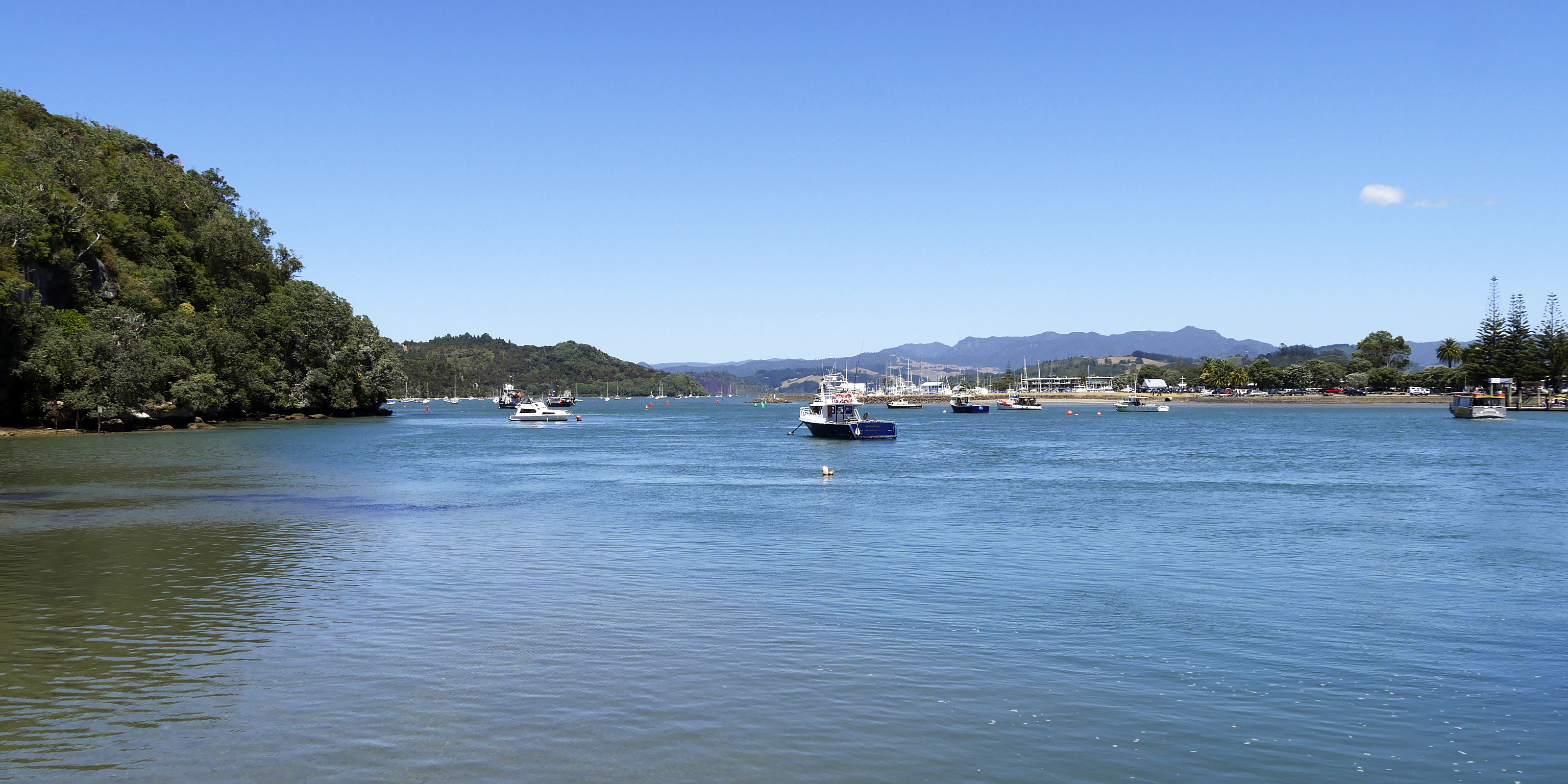 Whitianga Harbour, Coromandel Peninsula, Thames-Coromandel District, Waikato Region, North Island, New Zealand